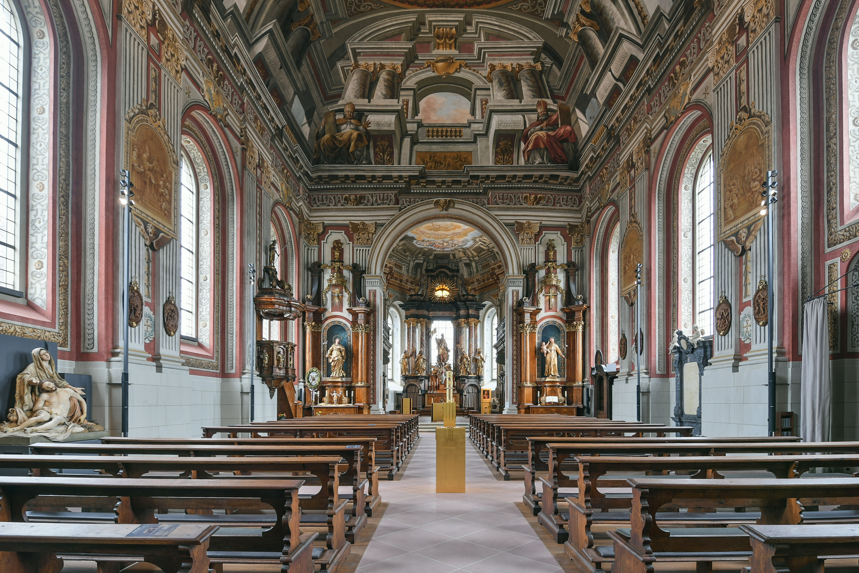 Nave of St. Mauritius in Wiesentheid